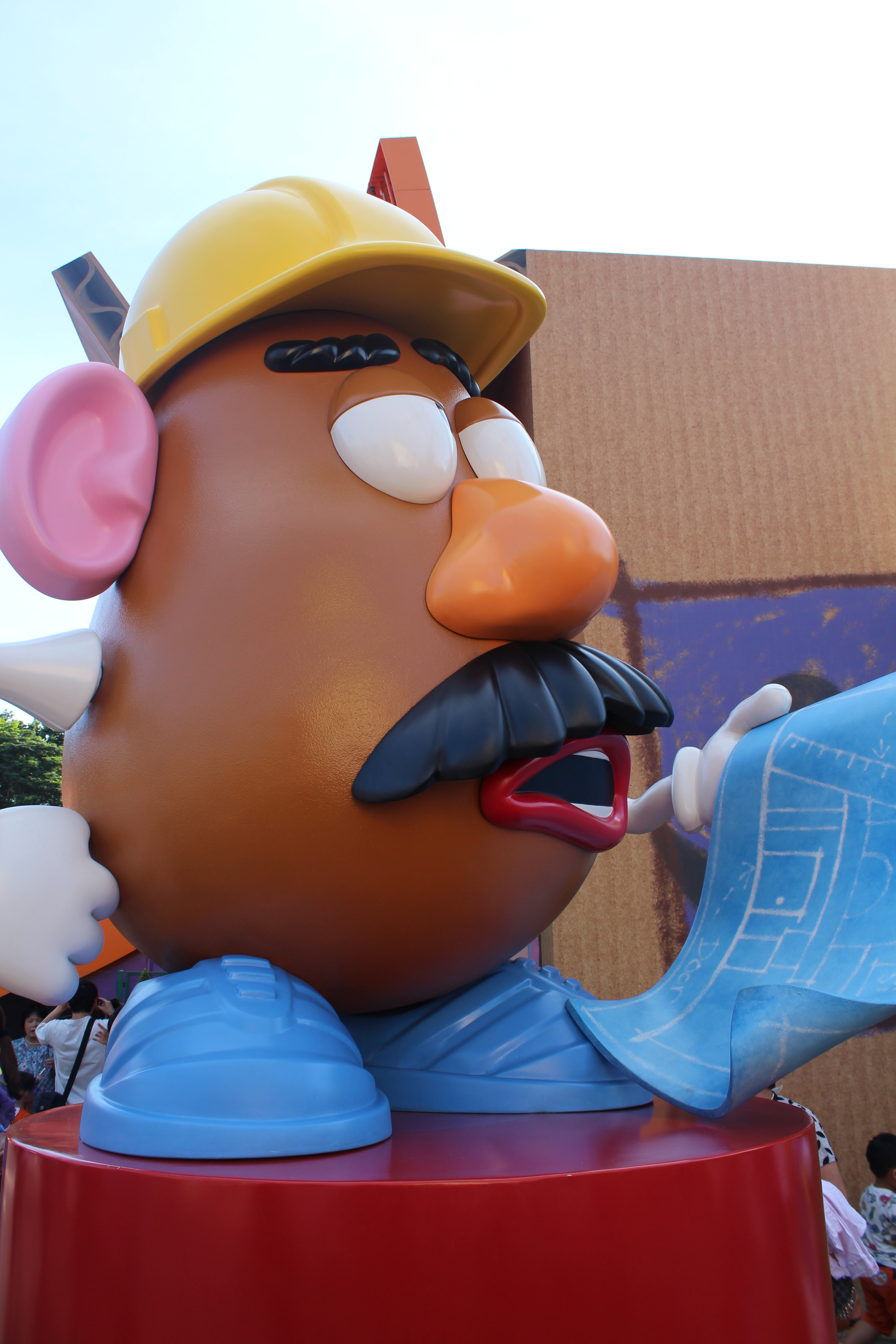 Toy Story Land at Hong Kong Disneyland, Hong Kong